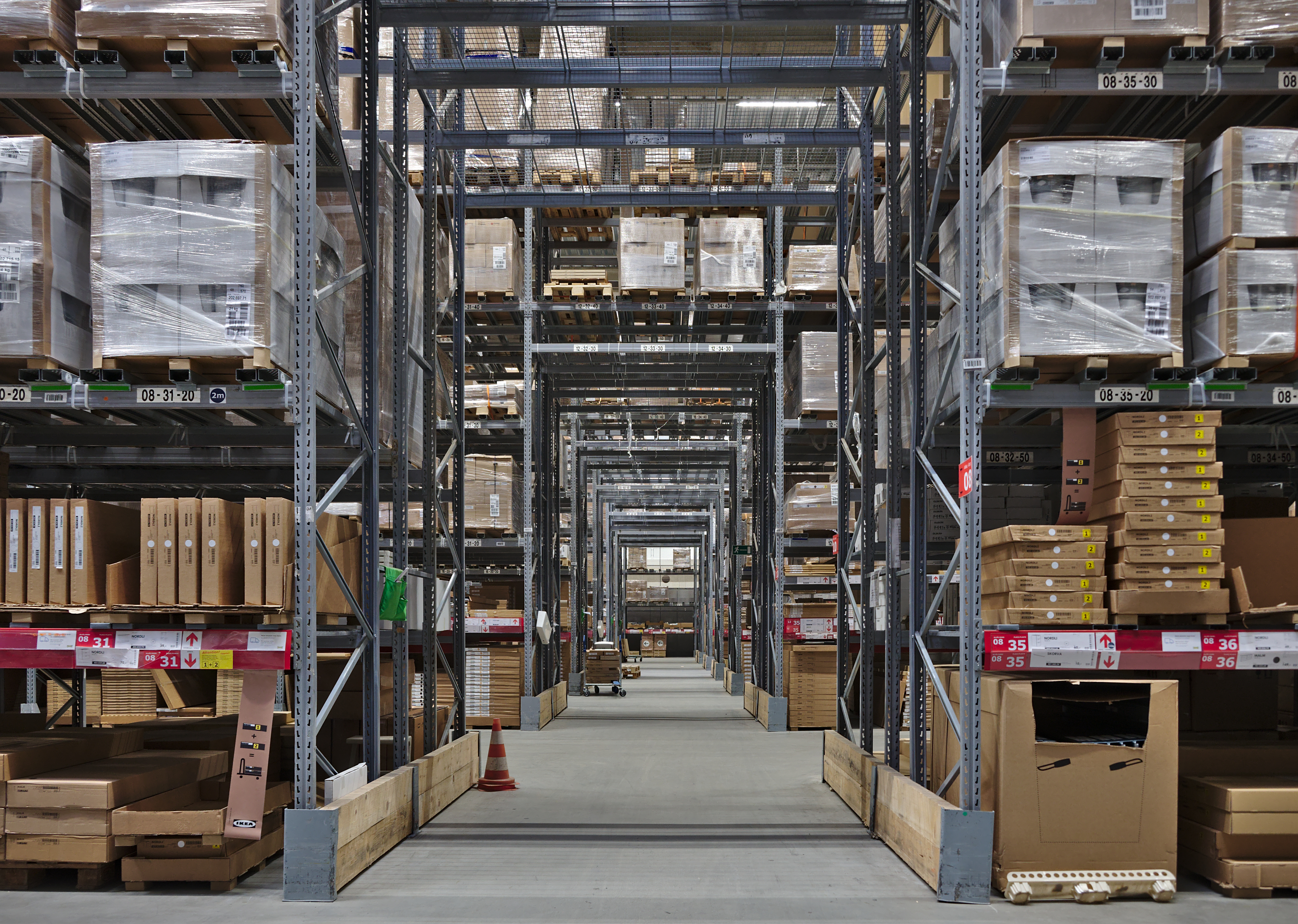 IKEA Anderlecht self-serve warehouse (DSCF3734)